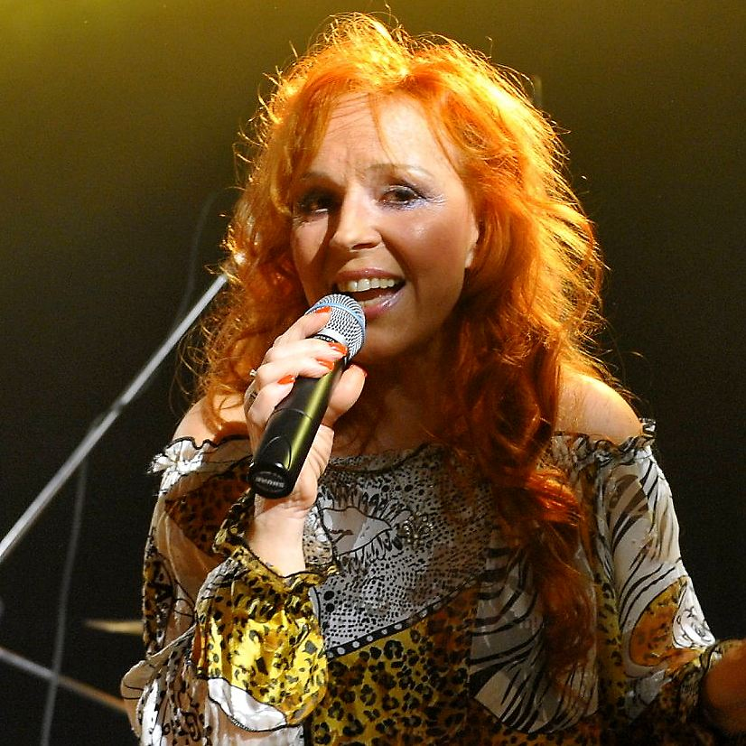 Marcela Holanova in Liberec January 2014